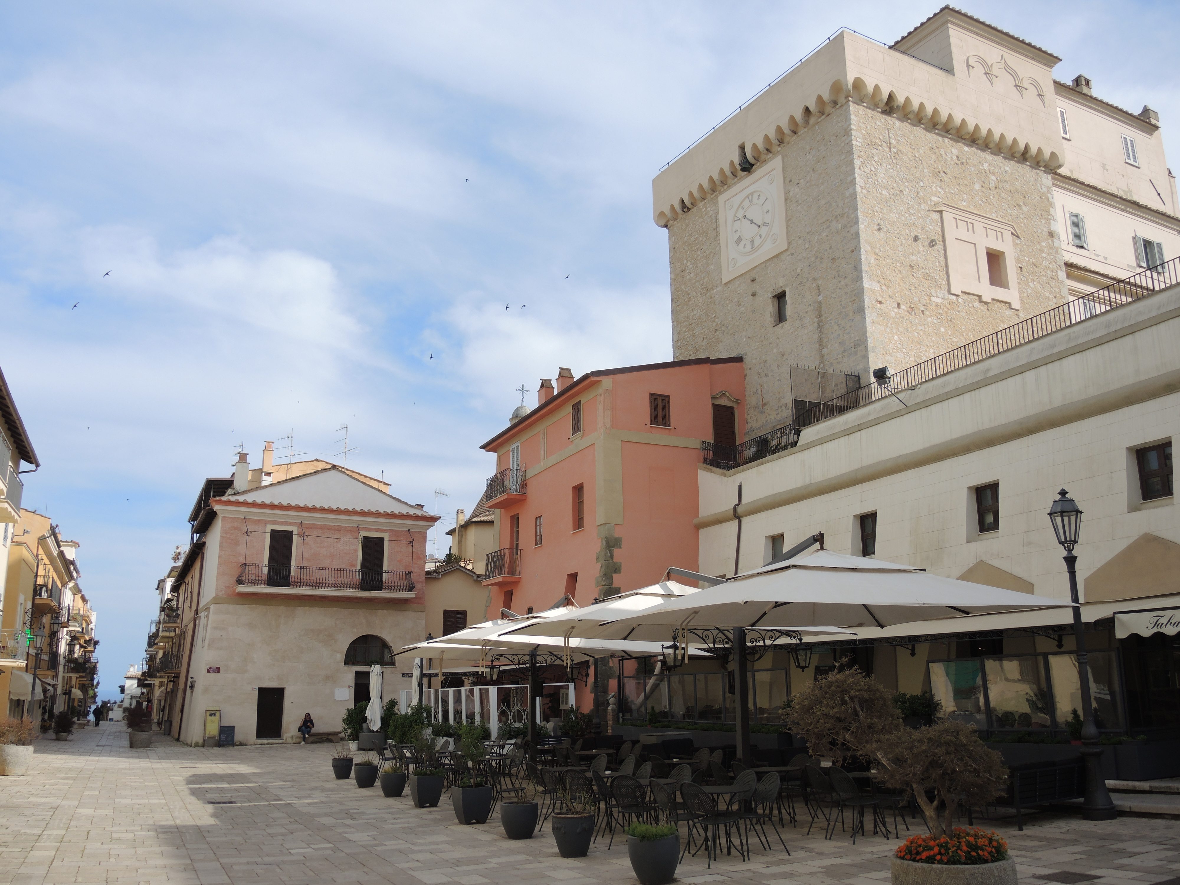 San Felice Circeo: Urban squares